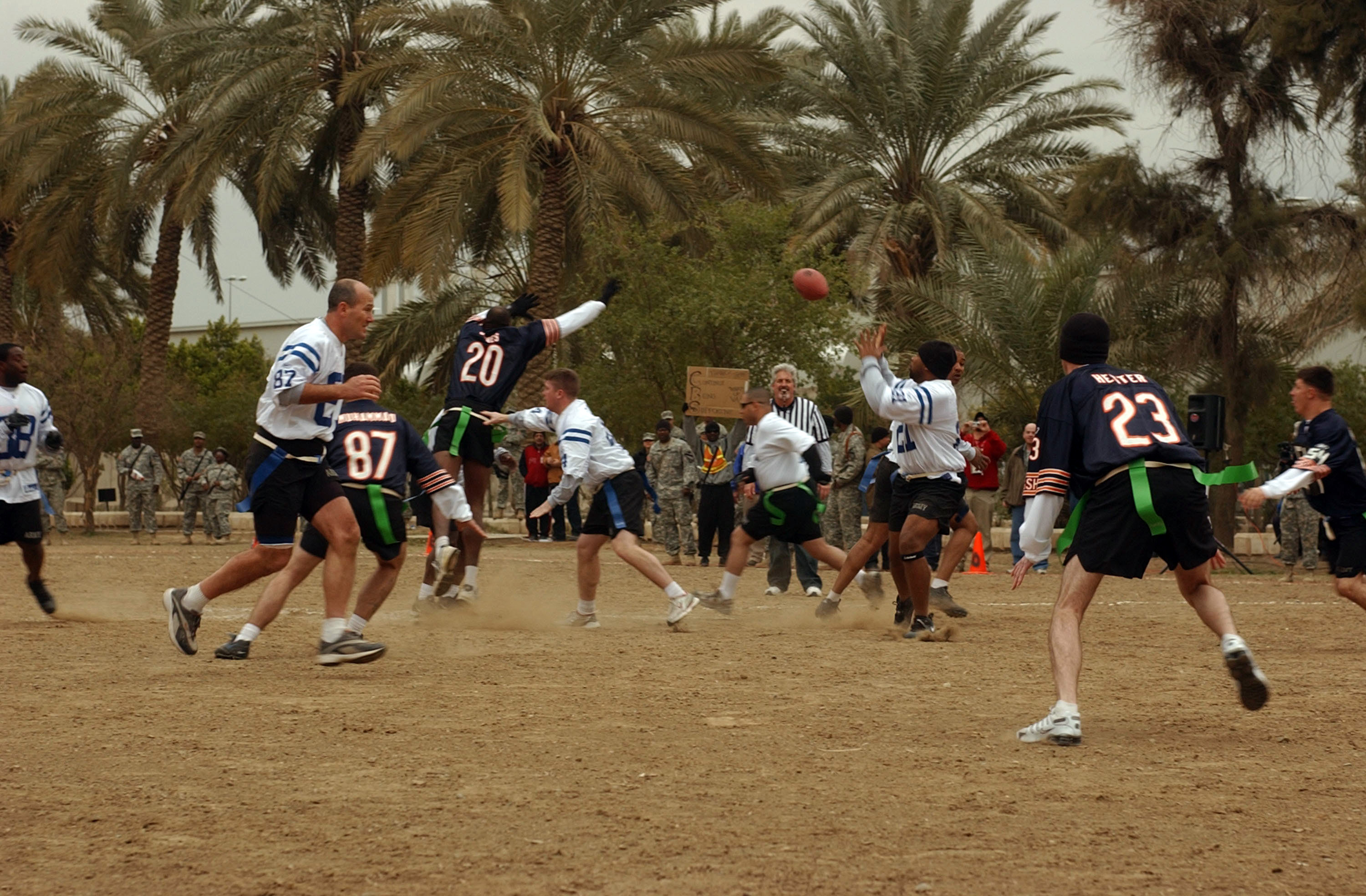 "The Baghdad Bowl" held the same day as Super Bowl XLI. The flag football game was played at Diyala, Iraq.